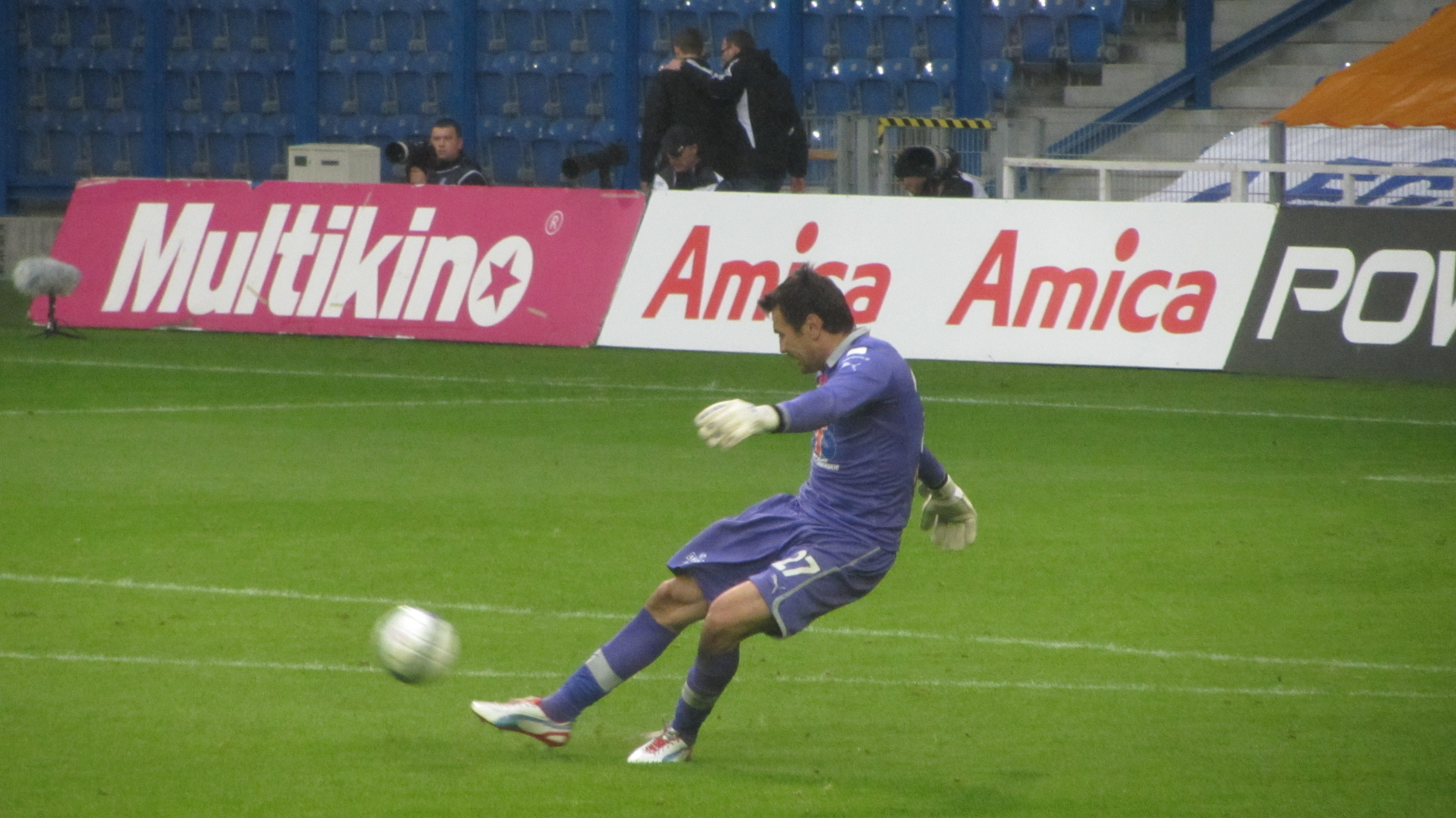 Polish goalkeeper Krzysztof Kotorowski, Lech Poznan's player